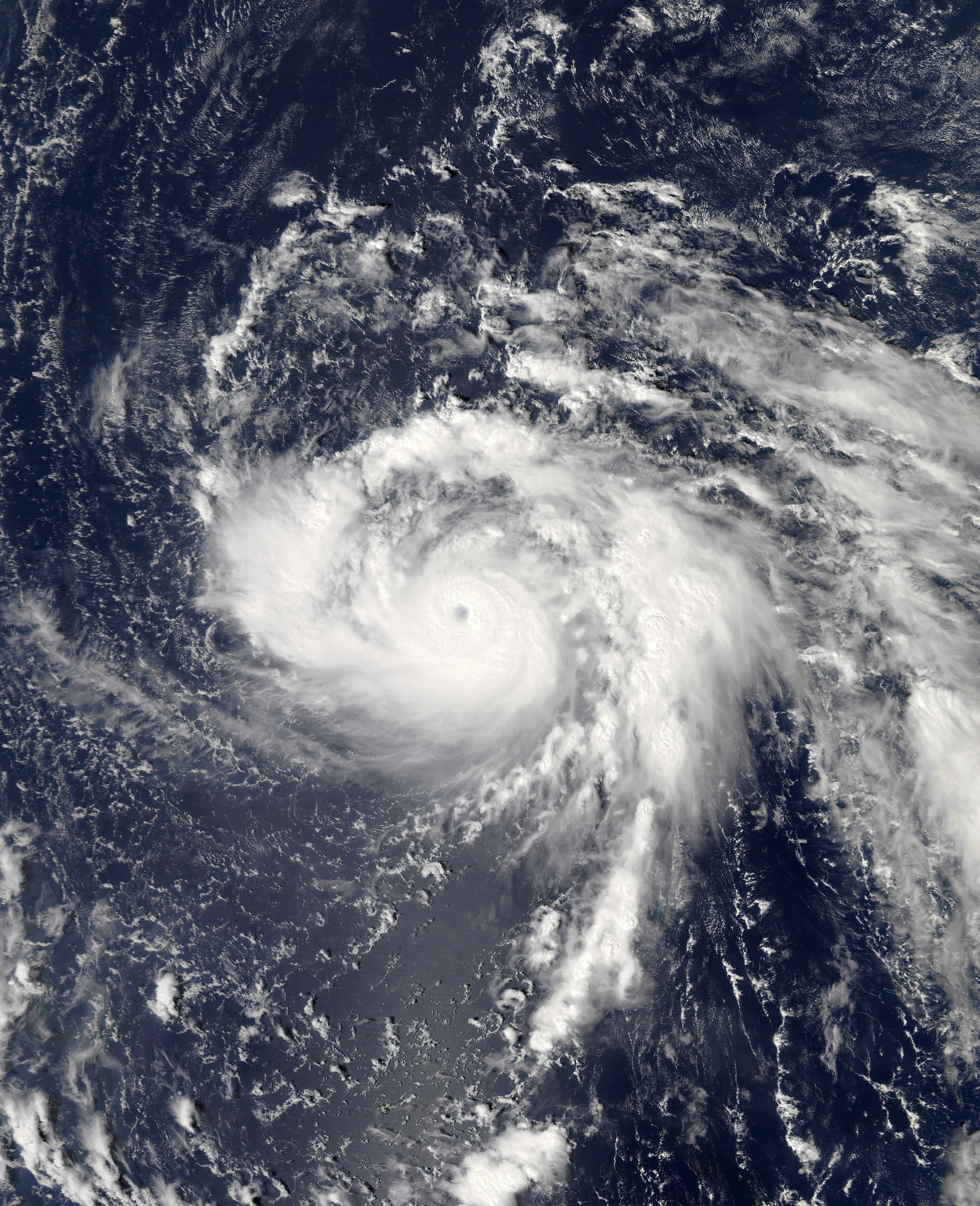 Typhoon Lekima on October 22, 2013